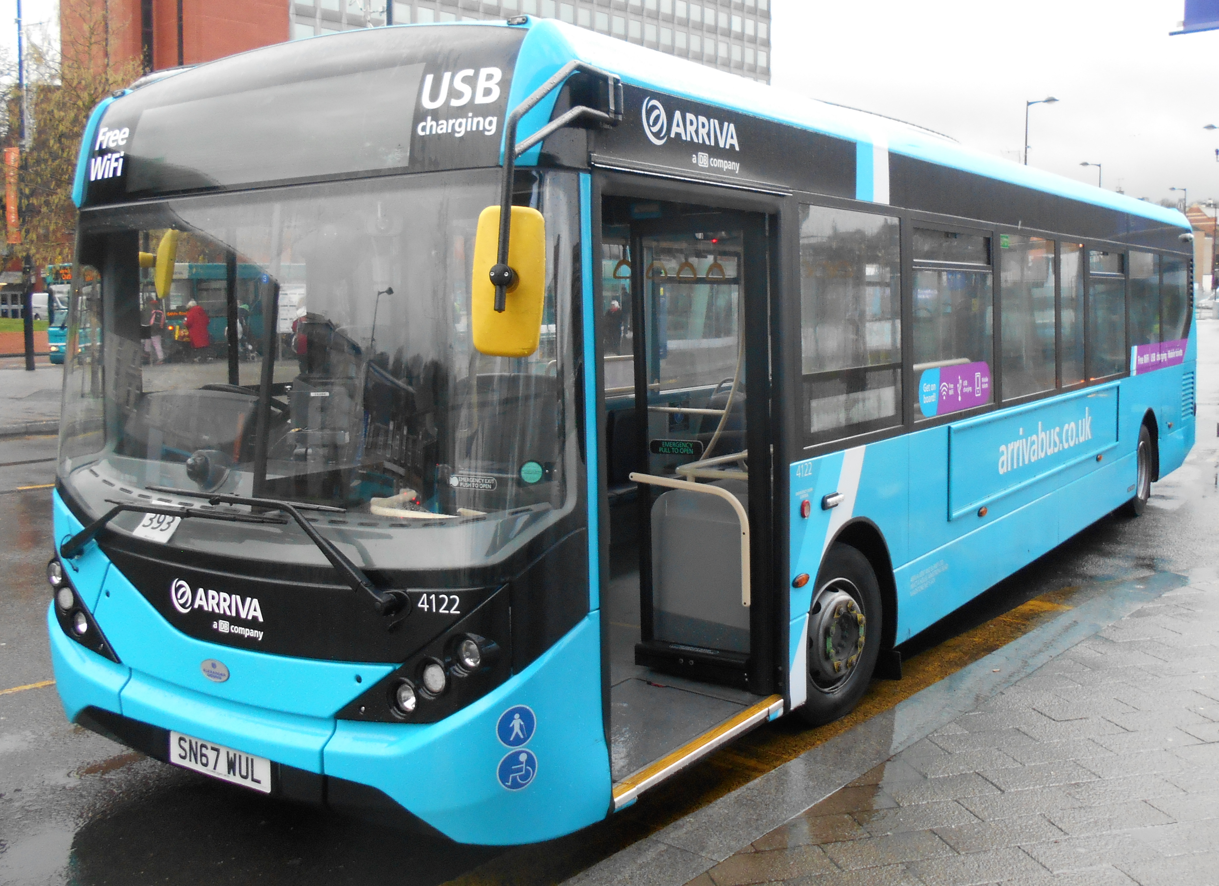 rriva Kent & Surrey SN67WUL